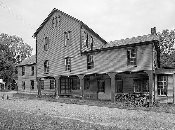 Gruber Wagon Works, Pennsylvania Route 183 & State Hill Road at Red Bridge Park, Bernville vicinity (Berks County, Pennsylvania) (cropped)